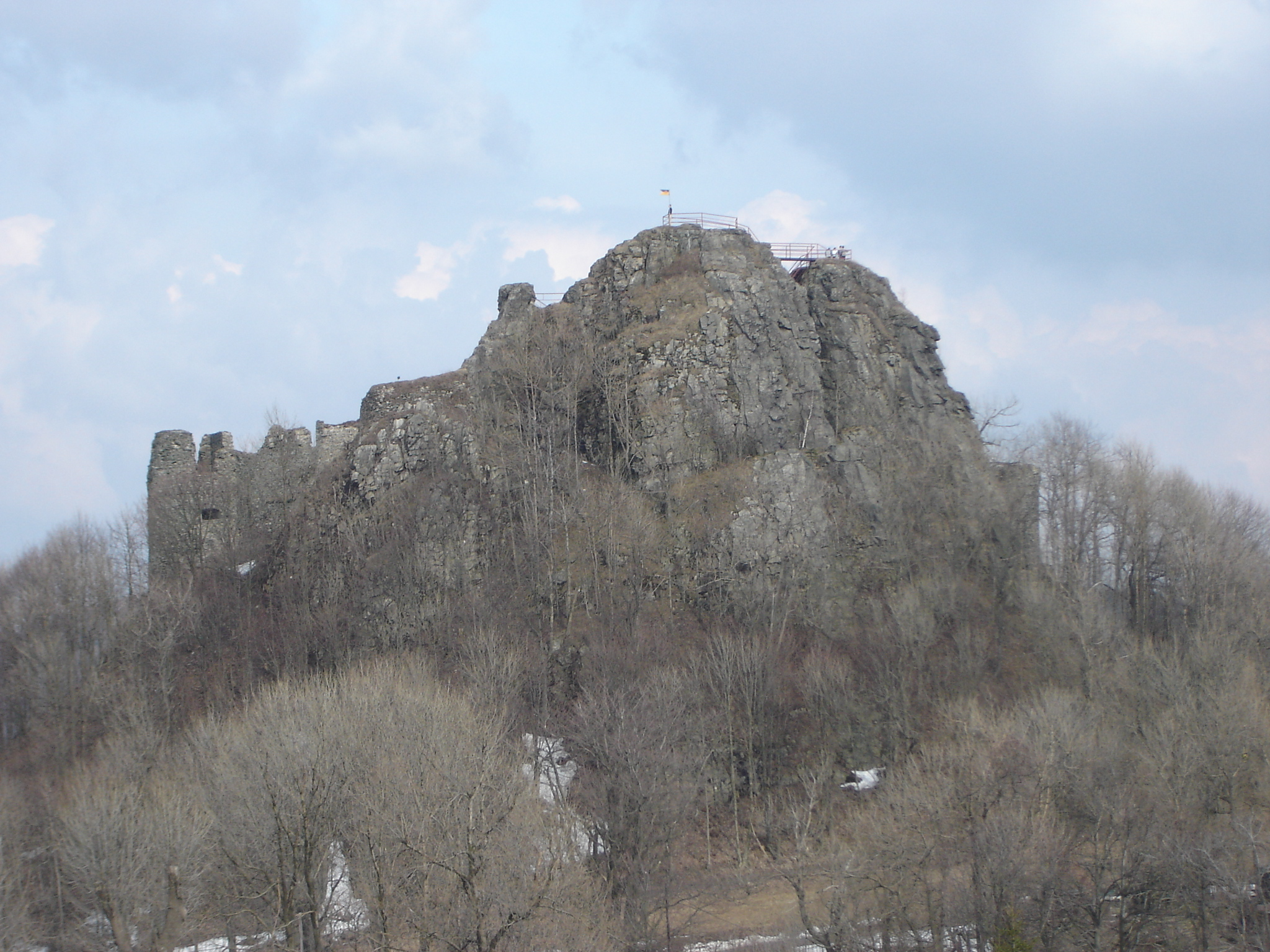 Castle Tolštejn Česky: Zříceniny hradu Tolštejn